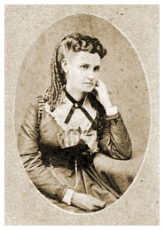 Margaret Mary Healy Murphy as a young woman.